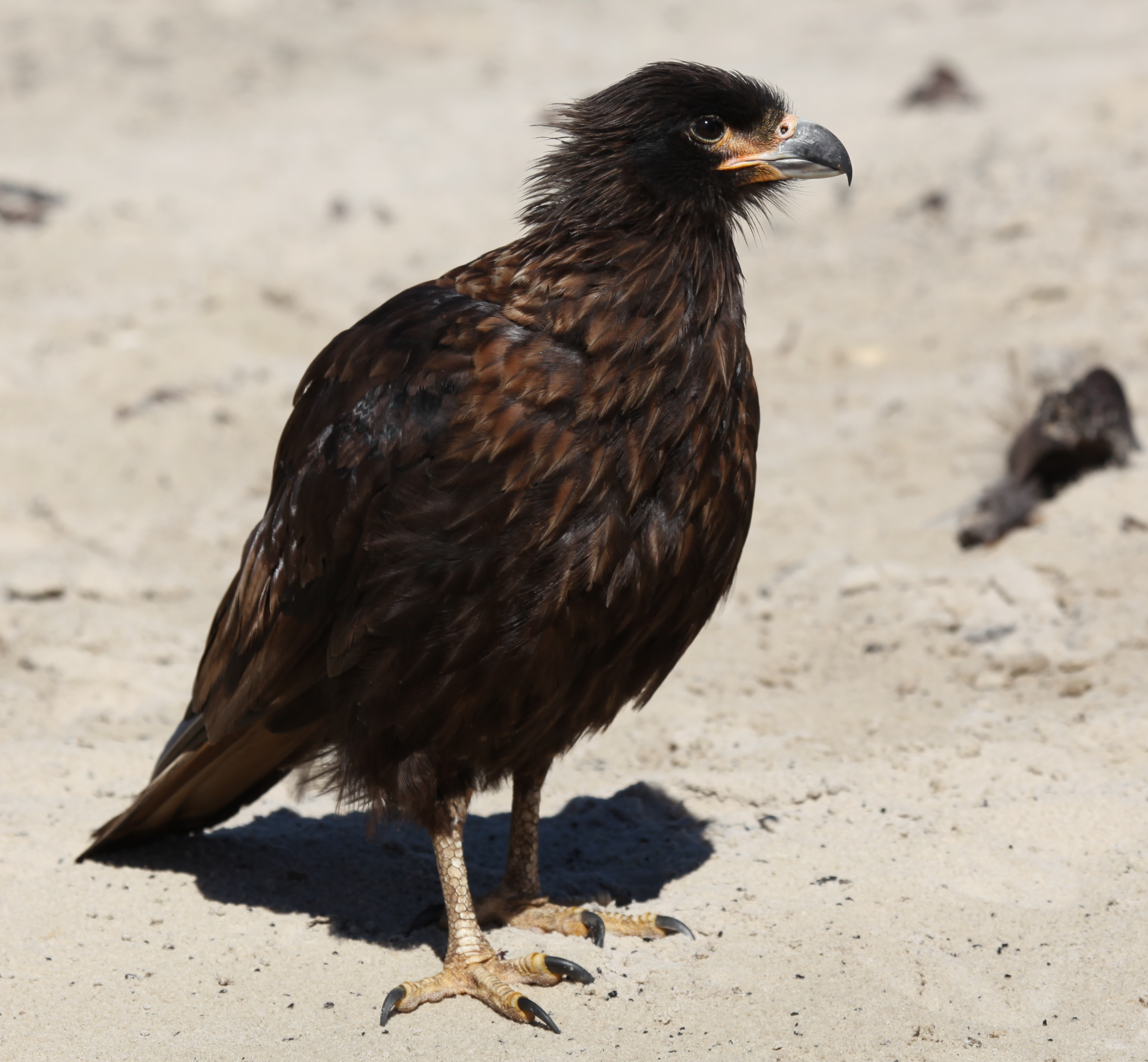 In the Falkland Islands.